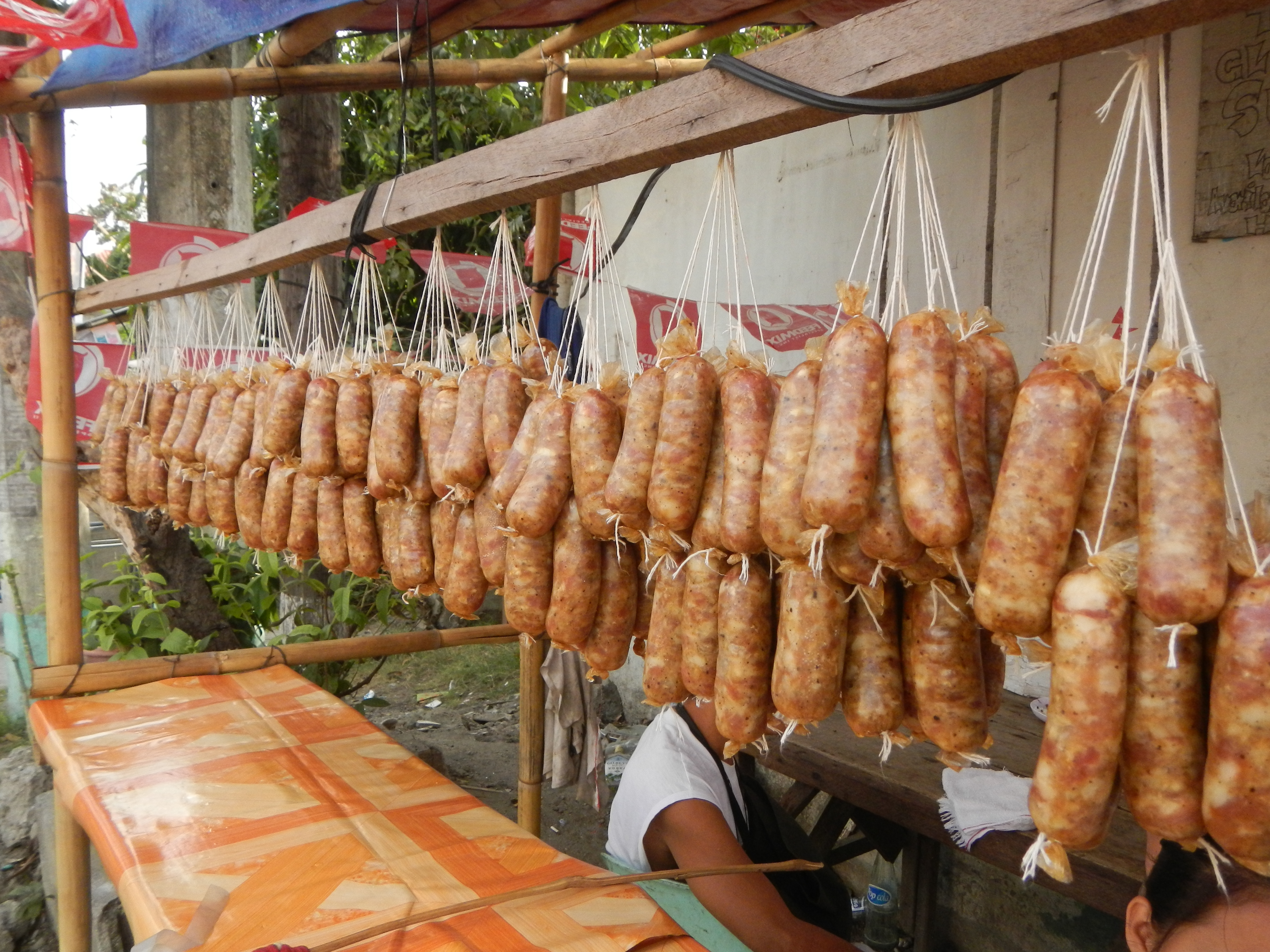 Barangay Sucol beside Poblacion and Caniogan, Sucol, Calumpit, Calumpit, Bulacan Syzygium samarangense Wax apples Tamarindus indica, Bananas in the Philippines (accessed from the Historical-Calumpit-Bridge New Calumpit, Bulacan-Apalit, Pampanga Bridge and Pampanga River, 2016; connecting to Apalit, Pampanga along the Calumpit, Bulacan-Apalit, Pampanga Road, from the Pulilan-Calumpit, Bulacan Road, part of the MacArthur Highway or Manila North Road).